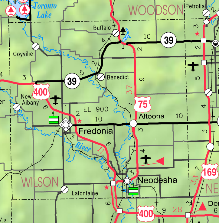 This map of Wilson County, Kansas, USA, is copied at a resolution of 300 pixels/inch from the original PDF file.